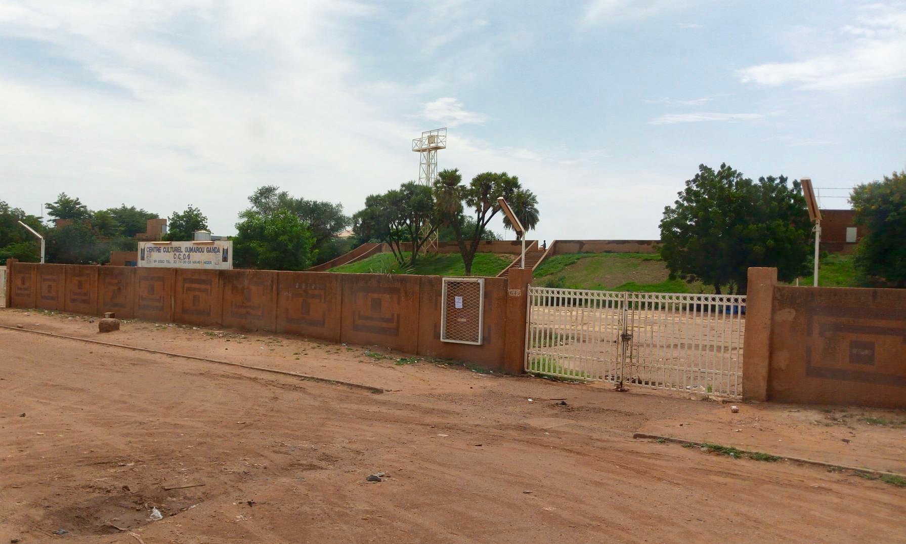 Centre Culturel Oumarou Ganda, Route Filingué, Niamey.